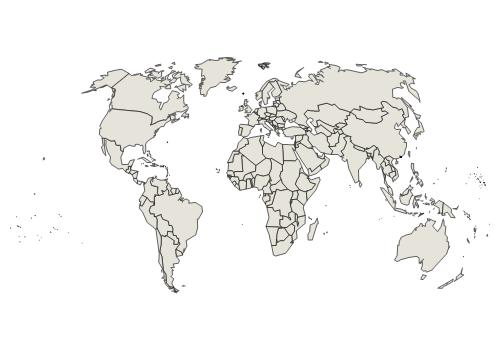 world map with Winkel-Tripel projection